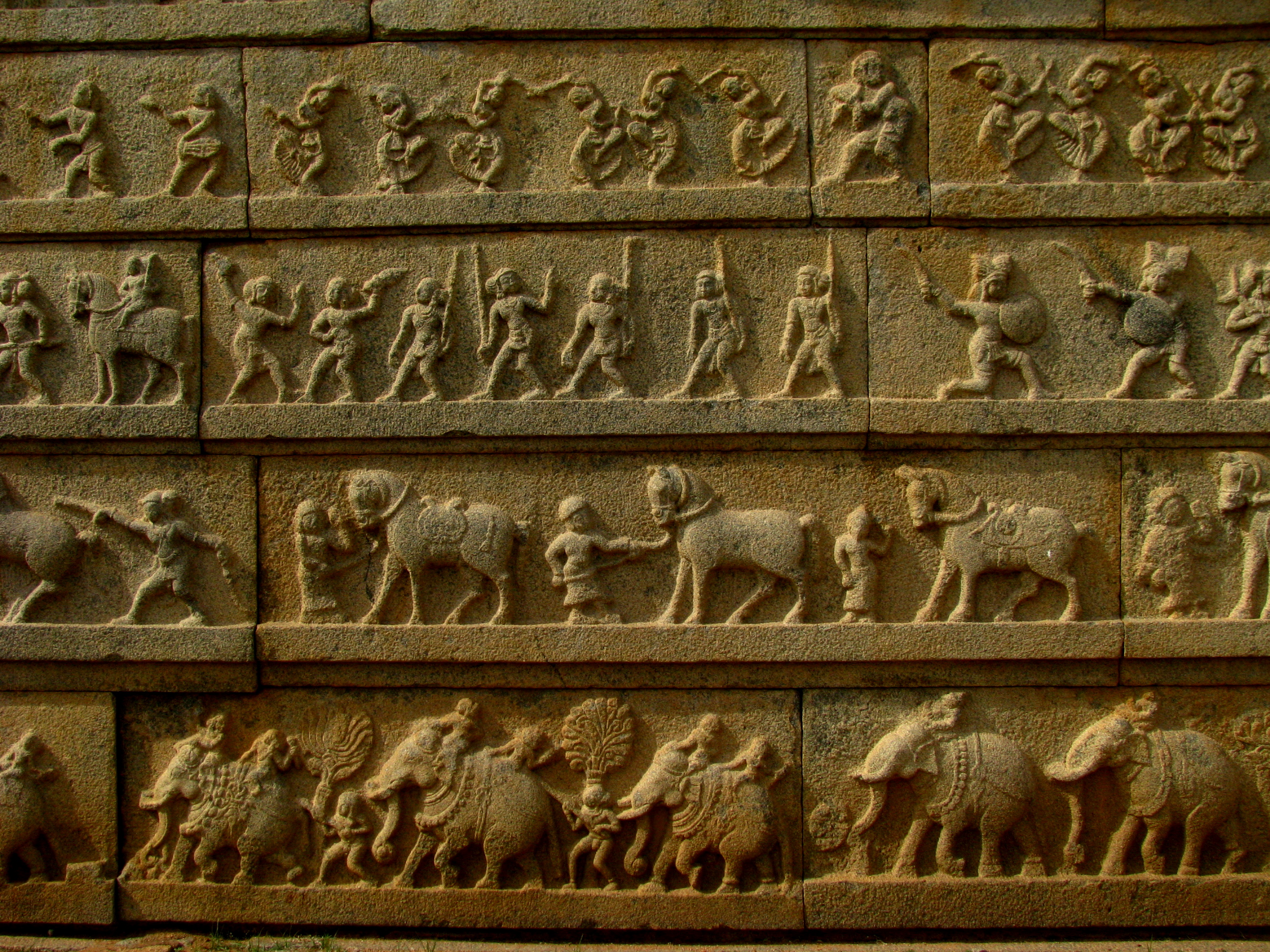 Carvings on the outer wall of the Hazara Rama temple, Hampi, India